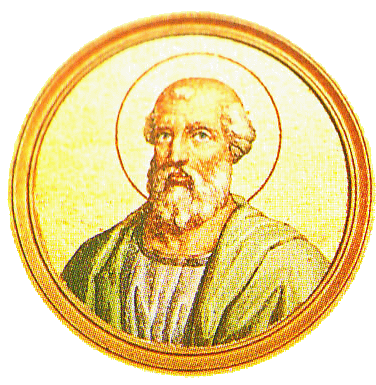 First pope after st Peter